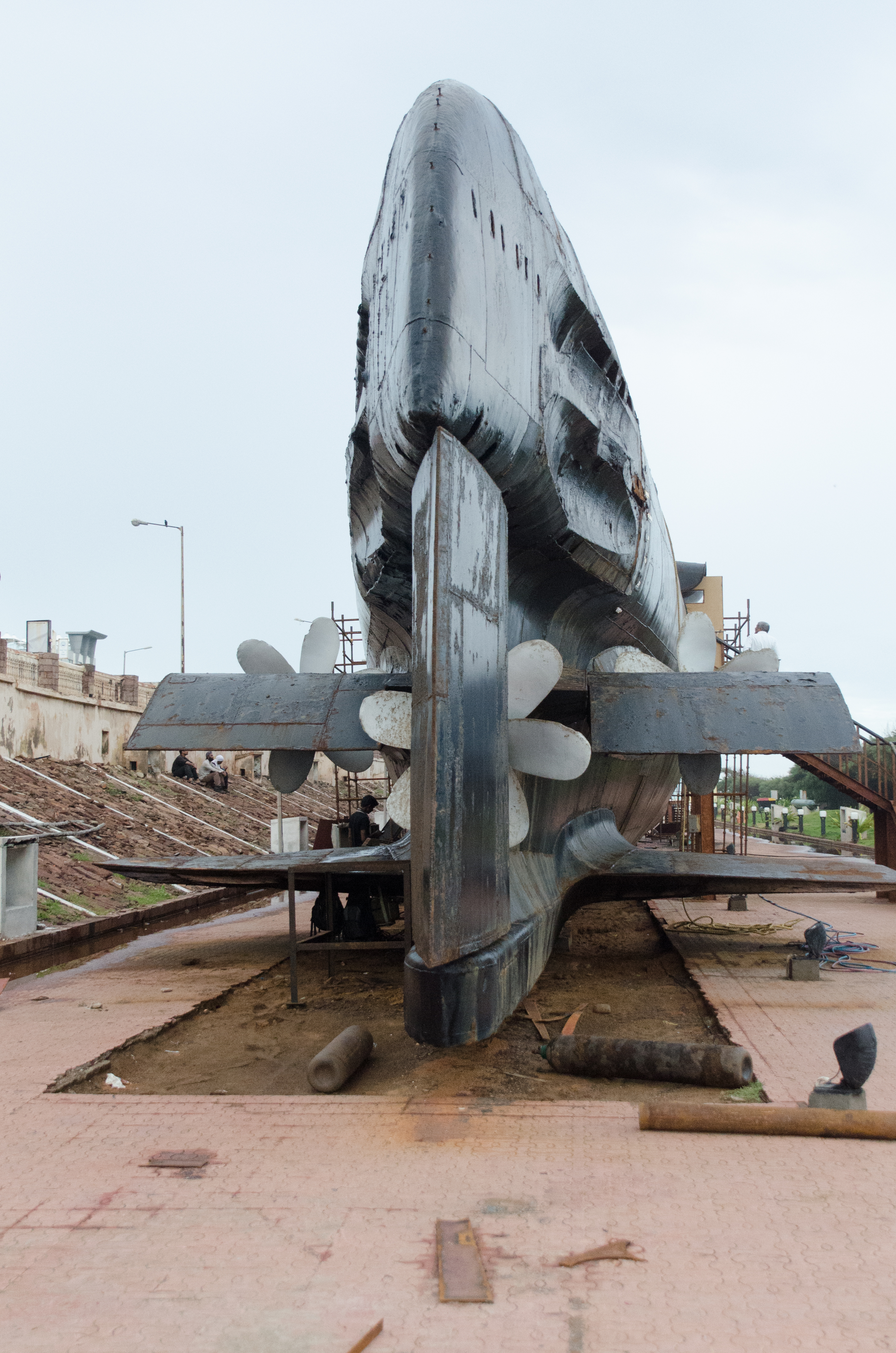 A foxtrot class Russian Diesel Electric Submarine